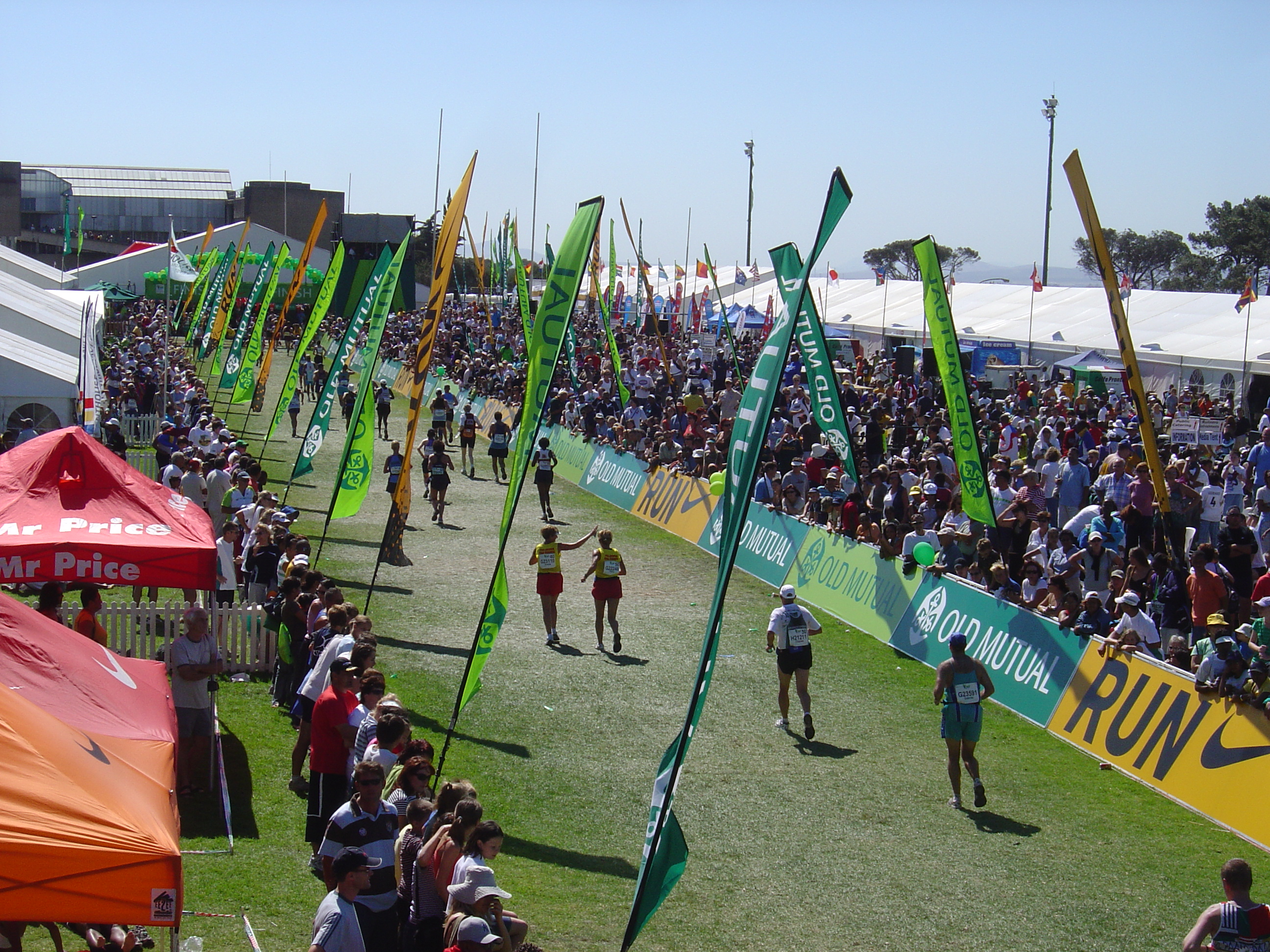 Finish of the Two Oceans Marathon at the University of Cape Town in 2007. Photo by User:Zaian.